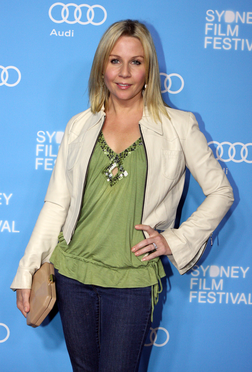 The Way Way Back Australian Movie Premiere - Toni Collette At State Theatre, Sydney, Australia - 6th June 2013 'The Way Way Back' enjoyed its Sydney red carpet premiere tonight at the beautiful State Theatre. The movie is part of the current Sydney Film Festival, which has thousands of Sydney movie lovers braving the cold and wet weather than this season is shedding upon Sydney. Promo: Funny, smart and uplifting, The Way, Way Back is a well-crafted coming-of-age comedy with winning performances by a stellar cast. Fourteen-year-old Duncan (Liam James) is forced to spend the summer vacation with his mother Pam (Toni Collette), her condescending boyfriend Trent (Steve Carell) and his mean-girl daughter. Constantly humiliated, Duncan struggles until he meets Owen (Sam Rockwell, in arguably his best performance), the manager of a somewhat dishevelled Water Wizz water park. Rebellious, relaxed, and very funny, Owen pokes fun at Duncan, but at the same time gives him the confidence to stand up for himself and find his place in the world. Directors Jim Rash and Nat Faxon are the Oscar®-winning writers of The Descendents and both accomplished actors themselves - Rash in Community and Faxon in Ben and Kate. Here they have made a heartwarming, inspiring and hilarious film. Plot Outline During a vacation in a Northeast beach town, a lonely teenage boy, Duncan (Liam James), comes into his own over the course of a summer through an unlikely friendship with the manager of a local water park (Sam Rockwell). Duncan’s mother, Pam (Toni Collette), alienates her young son through her determined efforts to make her relationship work with her carousing boyfriend (Steve Carell) whose disingenuous attempts to build a family are immediately transparent to Duncan. Sydney Film Festival screenings: Thursday 6 June, 9:30 PM State Theatre Monday 10 June, 4:15 PM Event Cinemas George Street Websites The Way Way Back Facebook State Theatre Sydney Film Festival Eva Rinaldi Photography